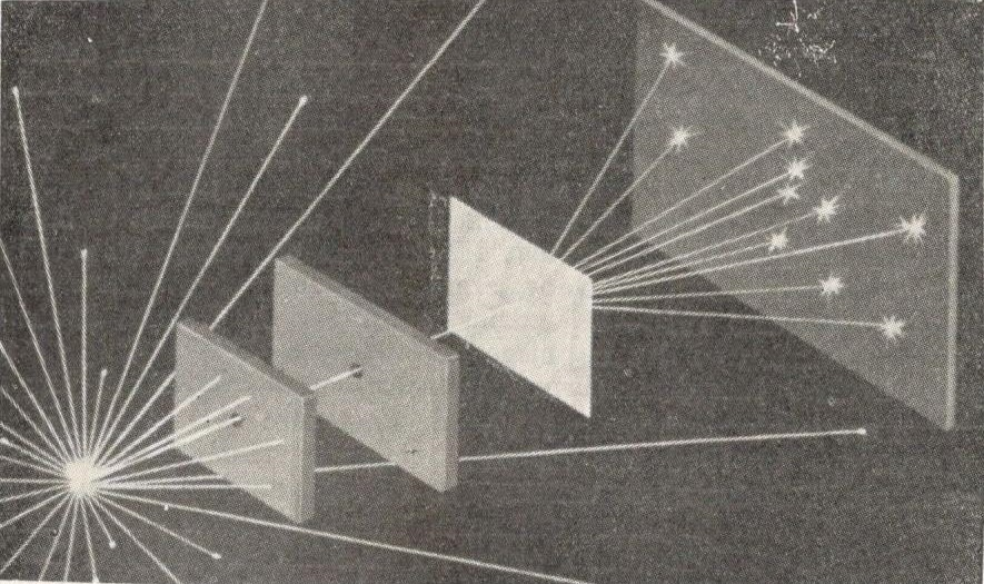 Dispersing of of alpha particles on a thin metal sheet